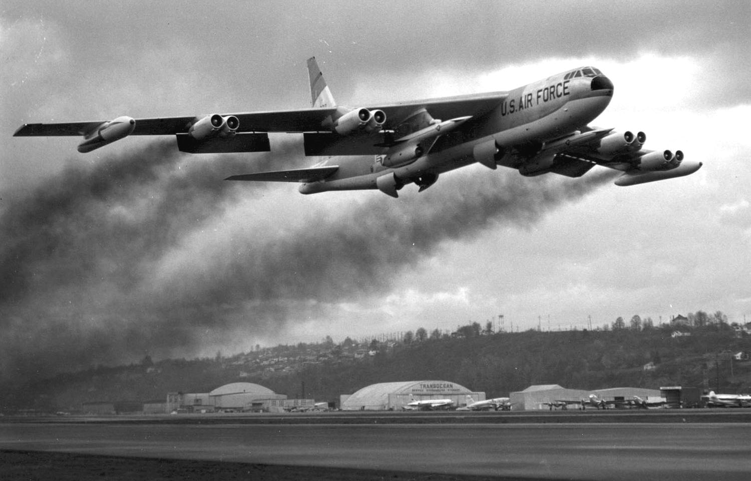 Boeing B-52F takeoff. Note the AGM-28 Hound Dog missiles.